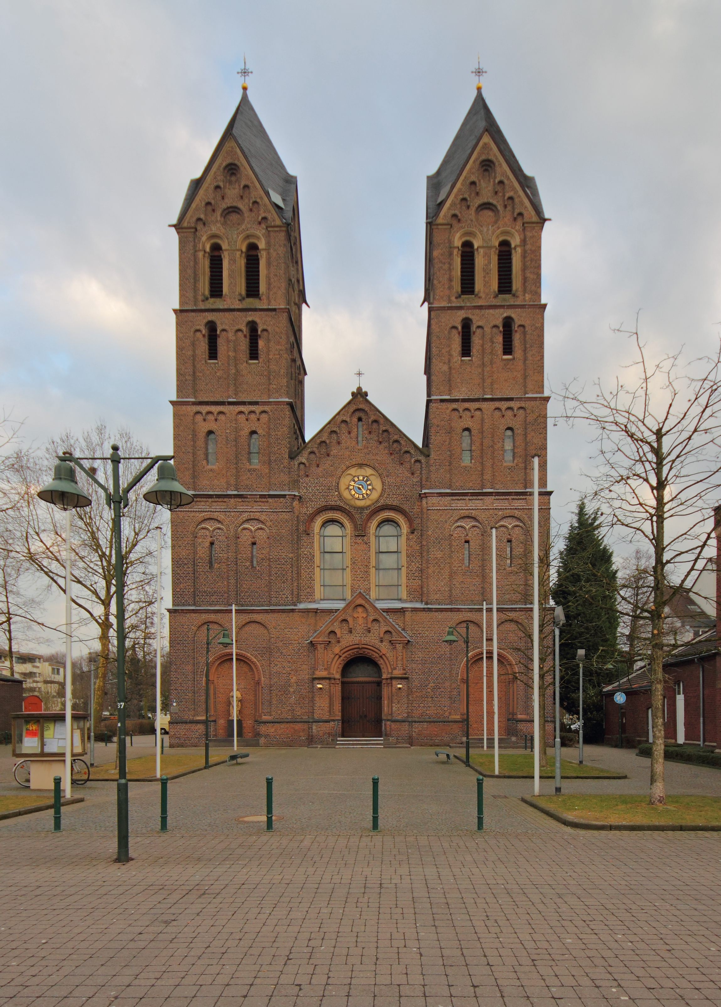 St. Andrew church in Leverkusen-Schlebusch